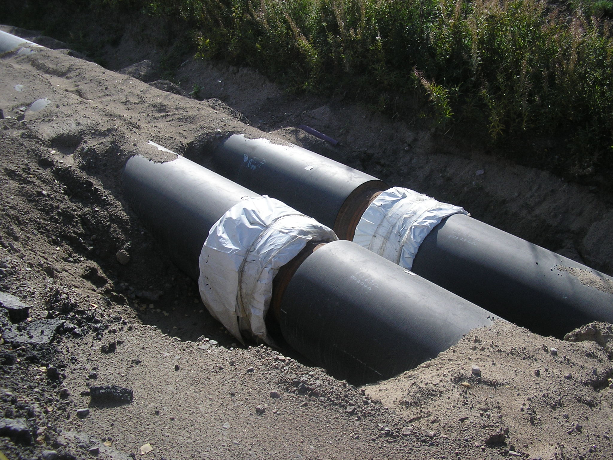 District heating pipes in Jyväskylä